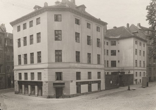 Soldins Stiftelse (formerly Trøstens Bolig) at Dyrkøb 1 in Copenhagen, Denmark